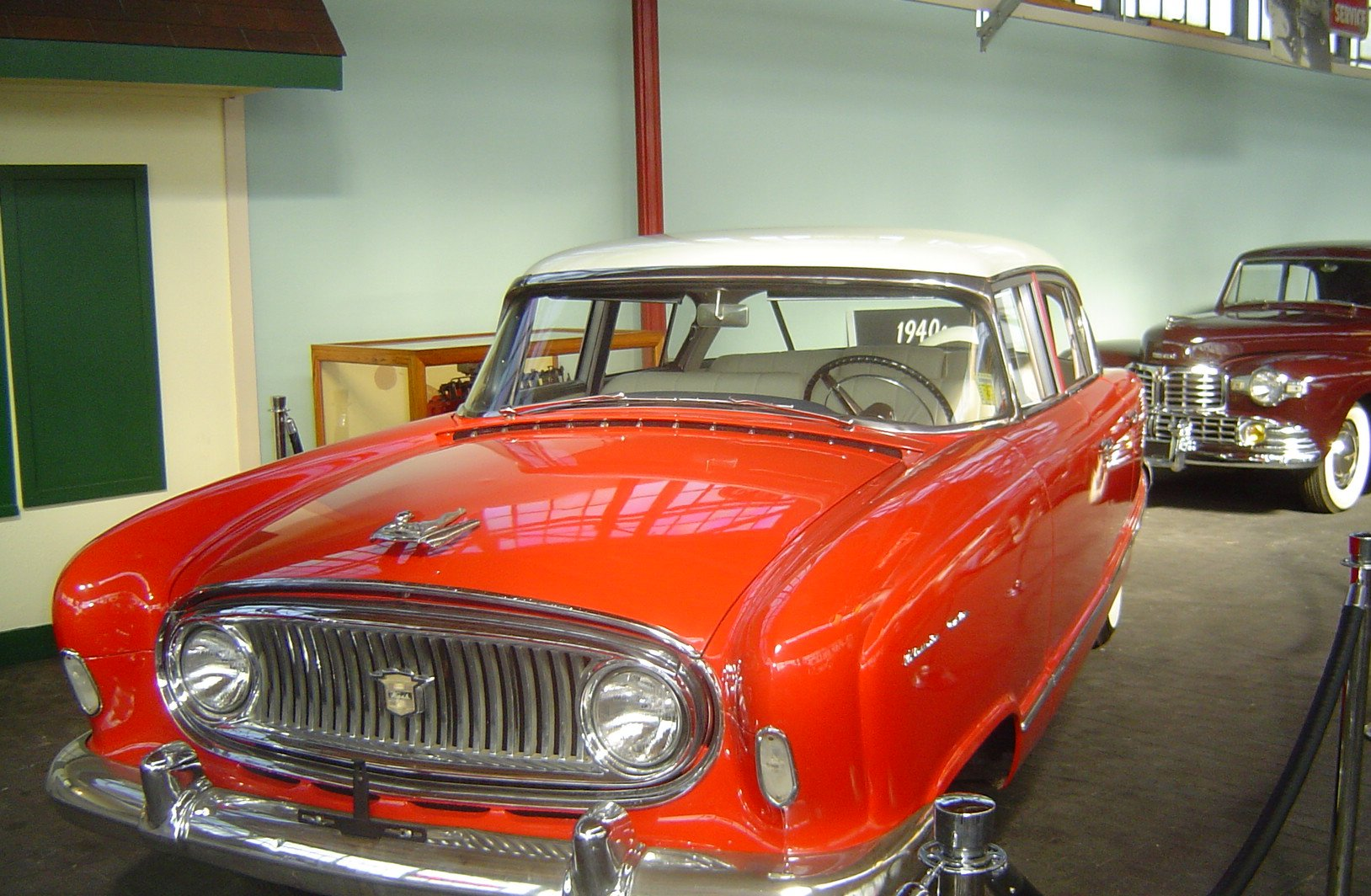 1955 Nash Ambassador. Taken at the North Carolina Transportation Museum.